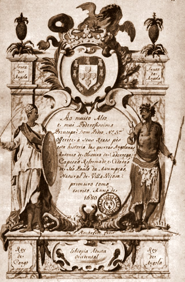 Front page of "História geral das guerras angolanas" of António de Oliveira de Cadornega, writen in 1680.